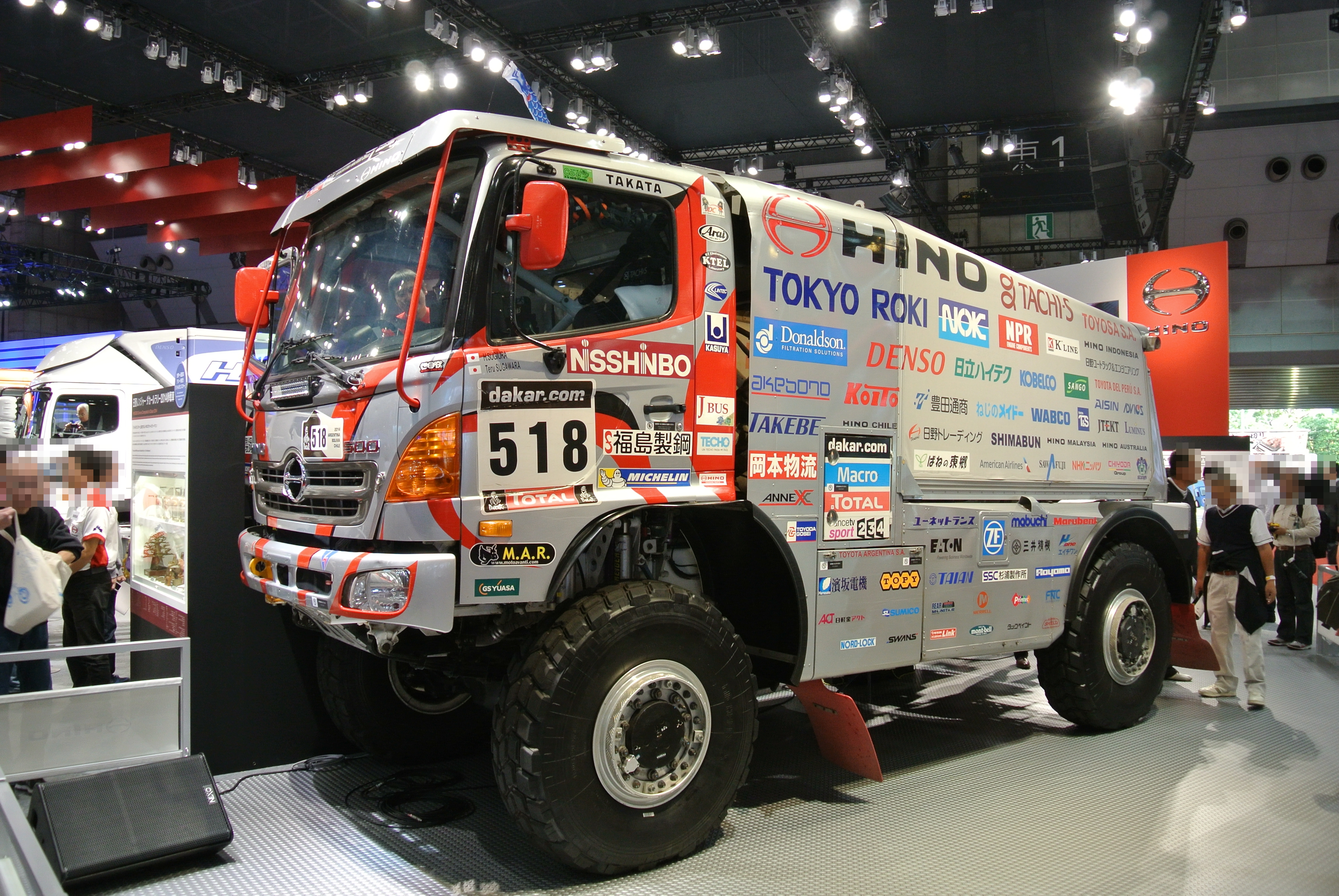 2014 Hino Ranger Conpetion at the Tokyo Motor Sow 2015.